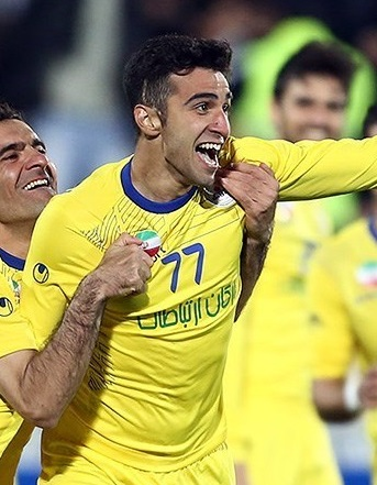 Amir Arsalan Motahari